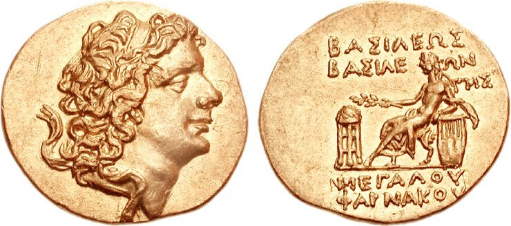 KINGS of BOSPOROS. Pharnakes. Circa 63-46 BC. AV Stater (8.11 g, 12h). Pantikapaion mint. Dated Pontic Era 243 (55/4 BC). Diademed head right / BAΣIΛEΩΣ BAΣIΛEΩN MEΓAΛOY ΦAPNAKOY, Apollo seated left on lion-footed throne, holding branch in extended right hand, left arm resting on kithara; tripod to left, ΓMΣ (date) to left. G&K 1 (dies α/A) = MacDonald 182 = Anokhin 216 = De Luynes 2396 (same dies); SNG BM Black Sea -; SNG Copenhagen -; SNG von Aulock -; BMC -. EF, light scratches. Extremely rare first issue of staters, only the de Luynes piece recorded (now in the BN). At the time of Golenko & Karyszkowski's publication of the corpus of known gold coins of Pharnakes, there were 15 known specimens. Very few specimens have since come to light, bringing the known population of these very rare pieces to about 22, of which about 10 are in museums. The present coin may be the sole example of the first year of issue available in the marketplace. Pharnakes was awarded the Bosporan Kingdom by Pompey, for the betrayal of his father Mithradates VI, King of Pontos. Little is known of his 16-year reign except for its ending. During the Civil War between Pompey and Julius Caesar, Pharnakes tried to recapture his father's former territories in Pontos. He won a victory over Caesar's general, Domitius Calvinus, and ordered Romans in the region castrated or put to the sword. In response, Caesar launched a rapid five day war against Pharnakes in 47 BC, culminating in the battle of Zela. Caesar emerged victorious, prompting him to report back to the Senate with the now famous dictum, "Veni, Vidi, Vici" (I came, I saw, I conquered).